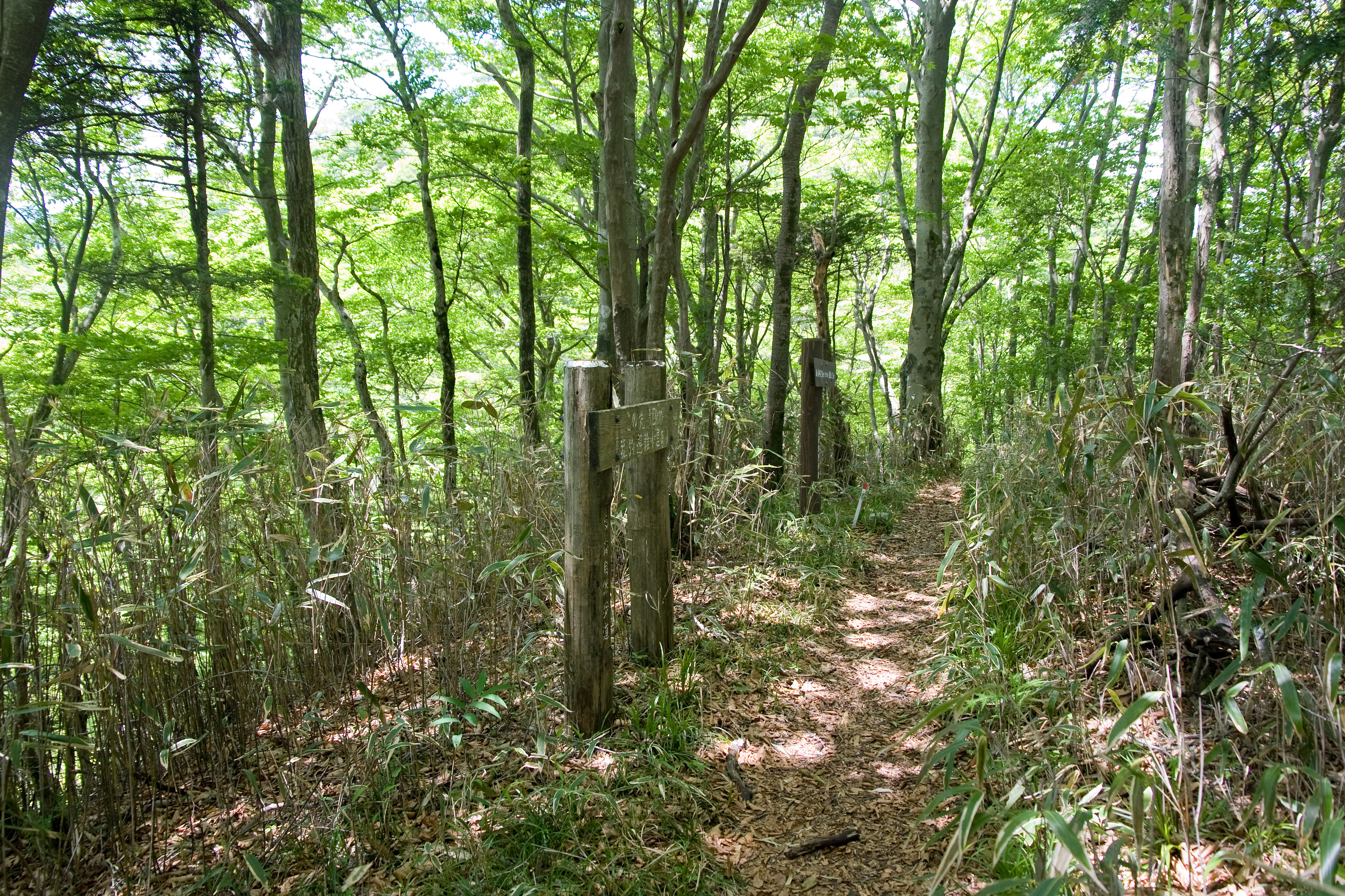 The summit of Mt.Bunasawanoatama in Tanzawa Mountains, Kanagawa and Yamanashi Pref, Japan.